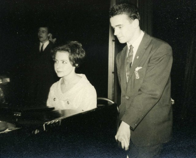 With... Little Miss Dynamite From the archive... me (an 18-year-old reporter) trying to be terribly nonchalant with 1960s mega-star Brenda Lee at the Sutton Granada on 8 April 1962. Brenda Lee was hugely popular in the 1960s, and particularly so in the UK, where she toured frequently. Her hits included Let's Jump the Broomstick, Speak To Me Pretty, Here Comes That Feeling, and her two biggies - I'm Sorry and Rockin' Around the Christmas Tree (which to this day, is still played worldwide in December). Just 4ft 9ins in height, she was known as 'Little Miss Dynamite' - a nickname which totally matched her performances.